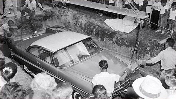 Image of the 1957 Plymouth Belvedere that was buried in 1957 at Tulsa, Oklahoma as a time capsule. It was later given the name "Miss Belvedere" prior to its recovery in 2007.